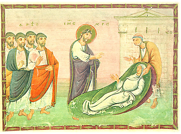 Healing Peter's Mother-in-law, from the Codex Egberti, fol. 22v